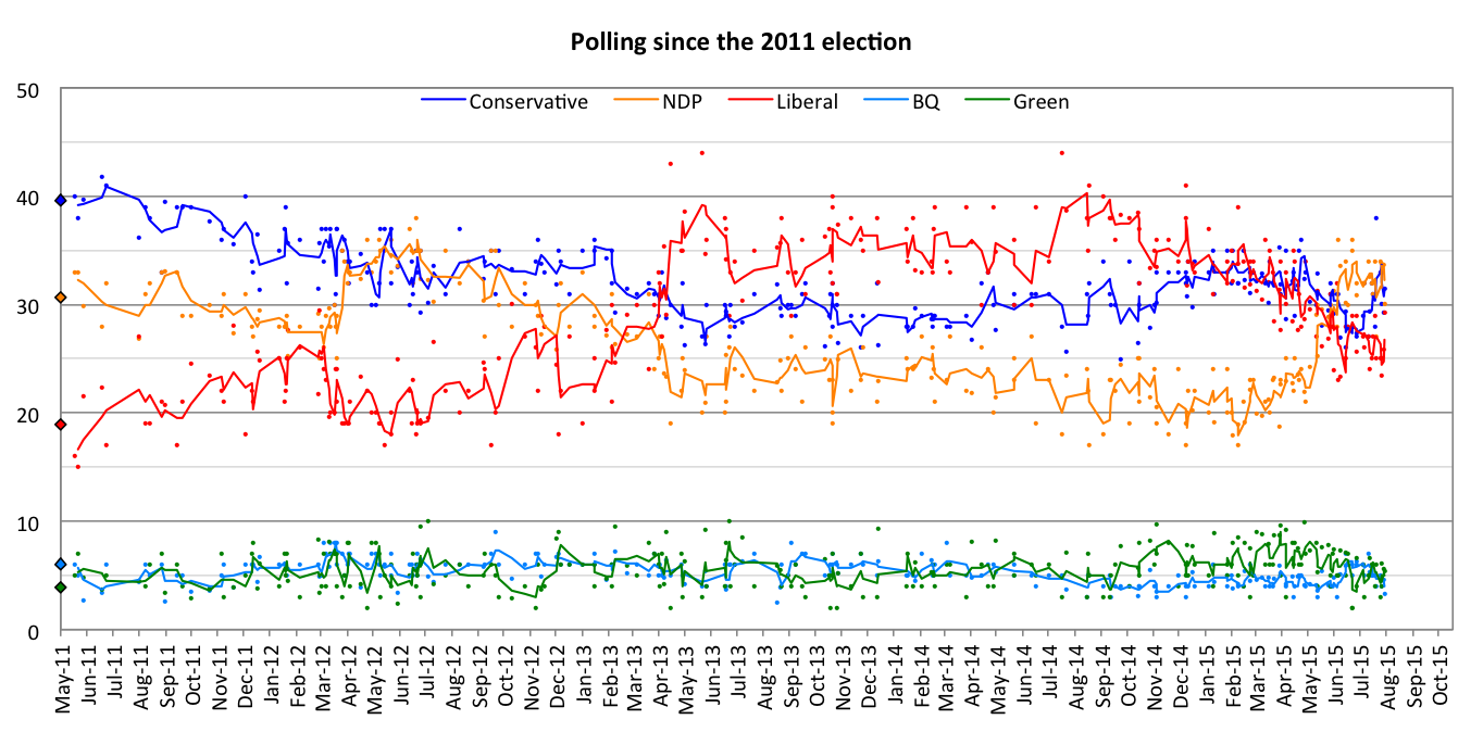 Evolution of Canadians' voting intentions since the federal election of May 2, 2011. Points represent results of individual polls. Trend lines represent three-poll moving averages.